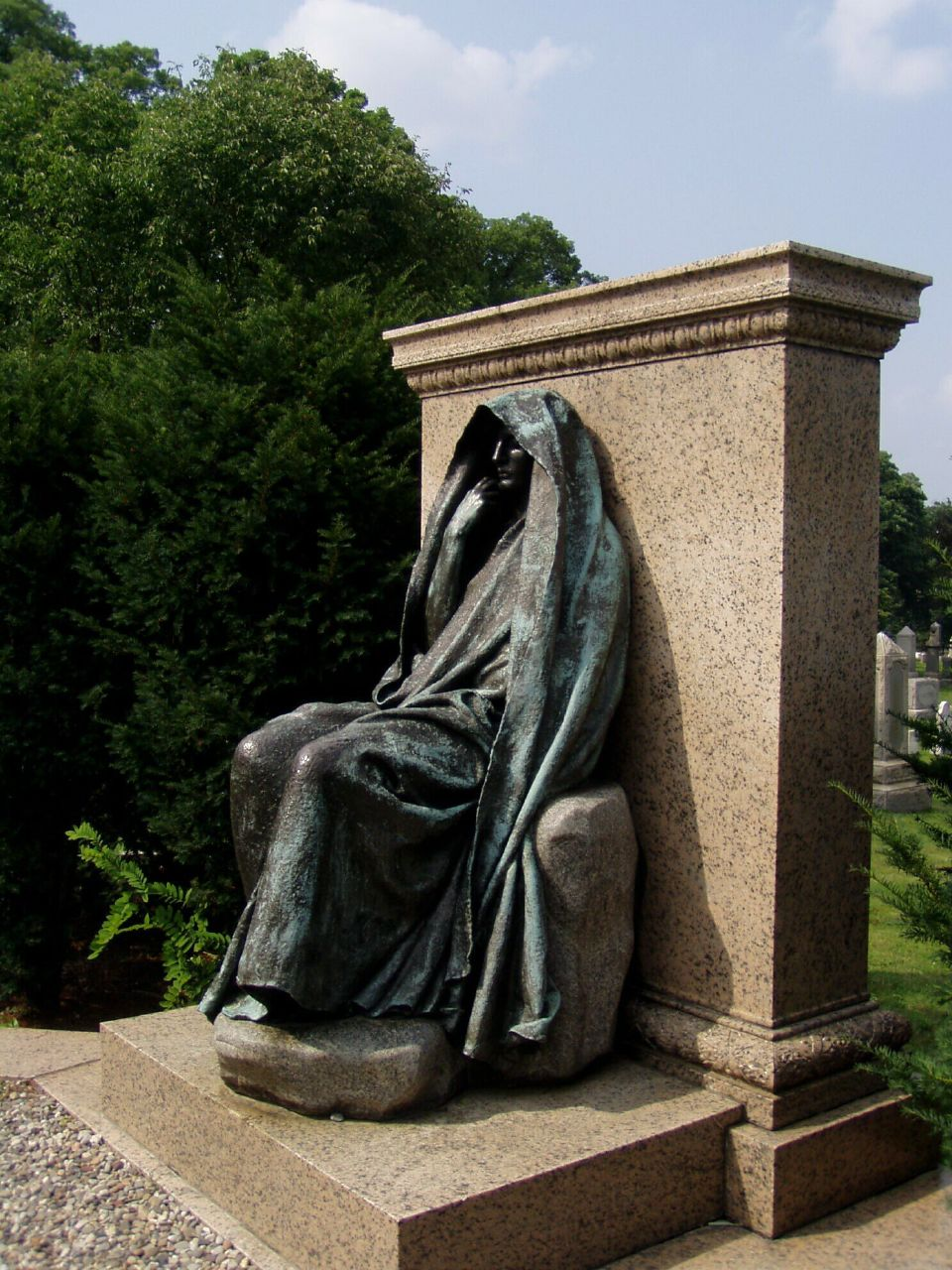 The Adams Memorial in Section E of Rock Creek Cemetery, Washington, D.C. Erected in 1891. Commissioned by Henry Adams as memorial to his wife, Clover Adams. Bronze allegory of The Mystery of the Hereafter and The Peace of God that Passeth Understanding (often called Grief) sculpted by Augustus Saint-Gaudens, in a setting designed by Stanford White. Photo by Dan Vera, 2007.